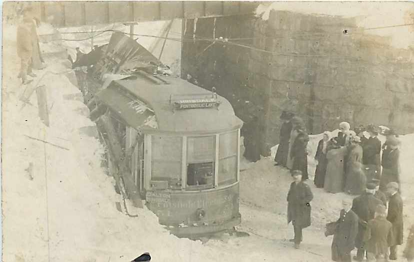 Early divided back postcard of a Pittsfield Electric Railway trolley that appears to have derailed and struck a bridge abutment